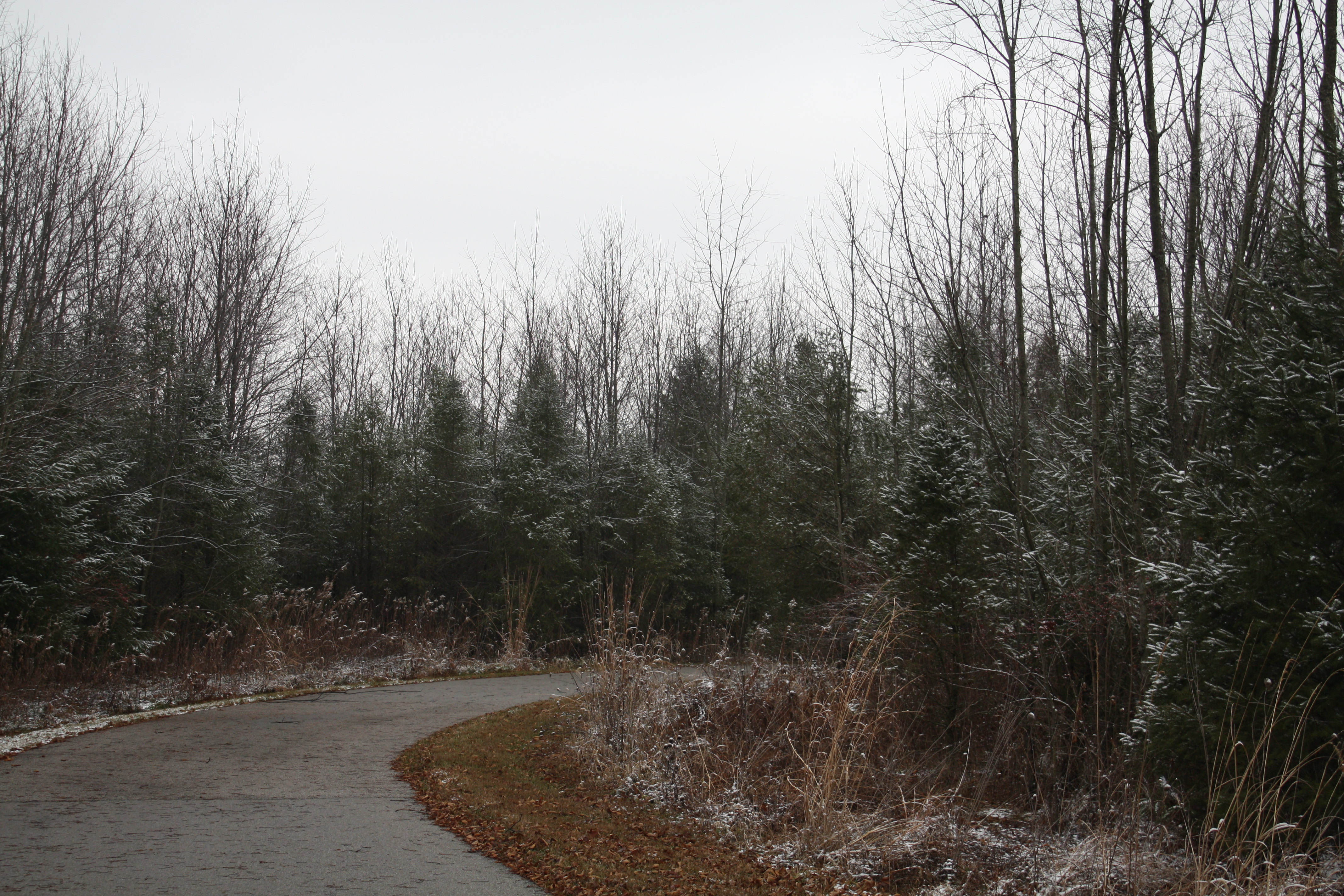 Prophetstown State Park in Lafayette, IN